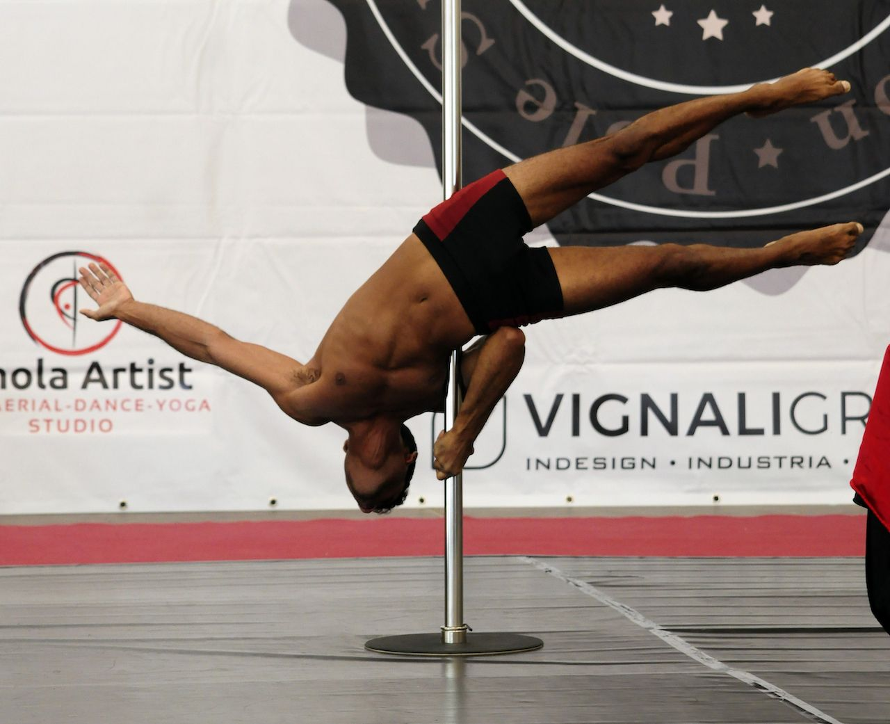 Pole Dancer at the CSIT World Sports Games in Tortosa, 2019-07-05